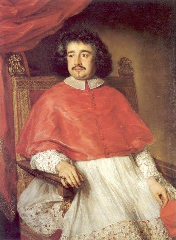 Portrait of Cardinal Flavio Chigii (1631-1693)